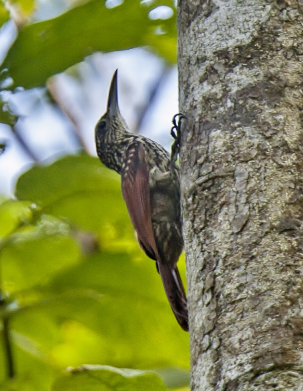 Black-striped Woodcreeper Xiphorhynchus lachrymosus